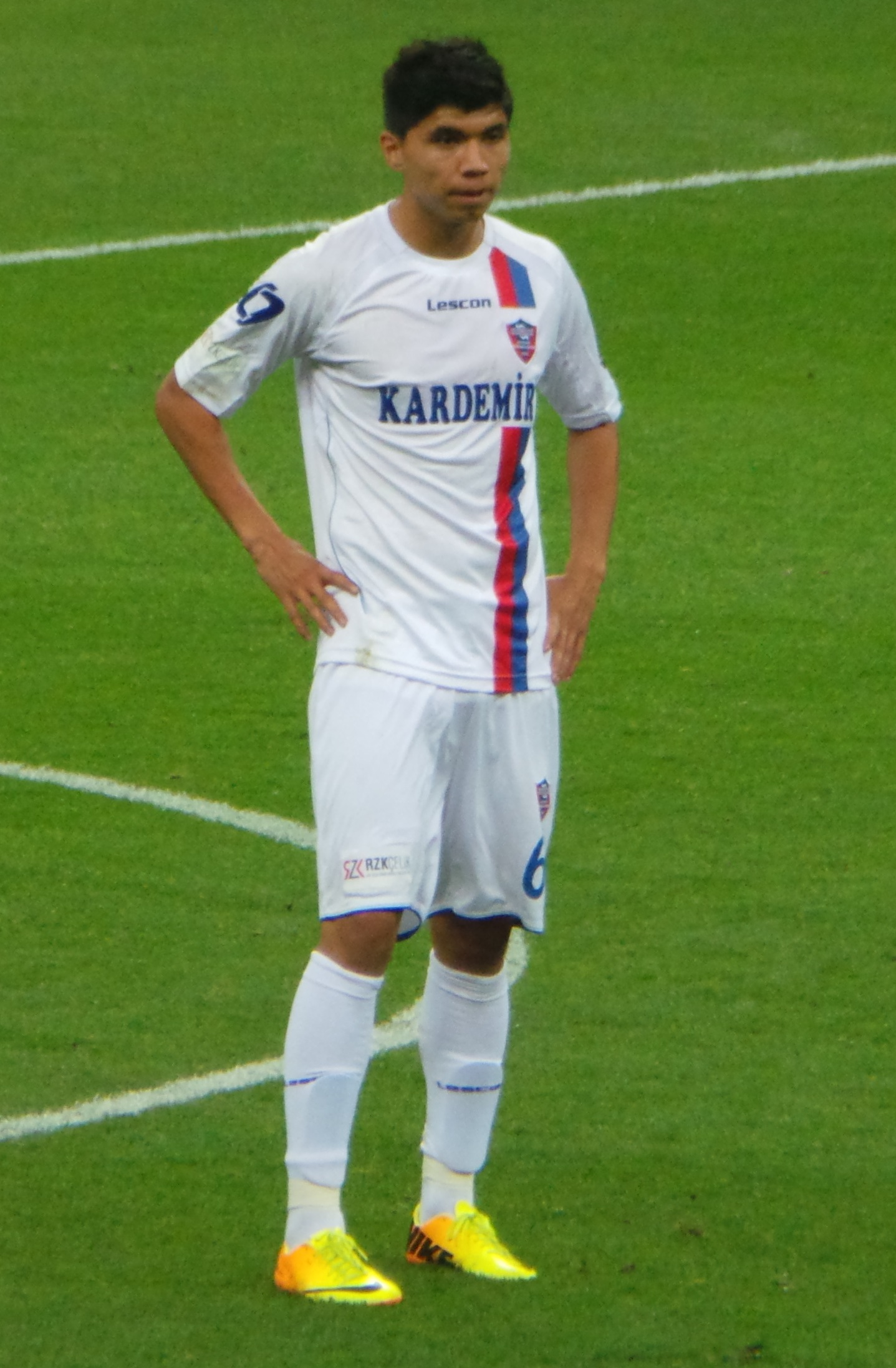 İshak against G.S